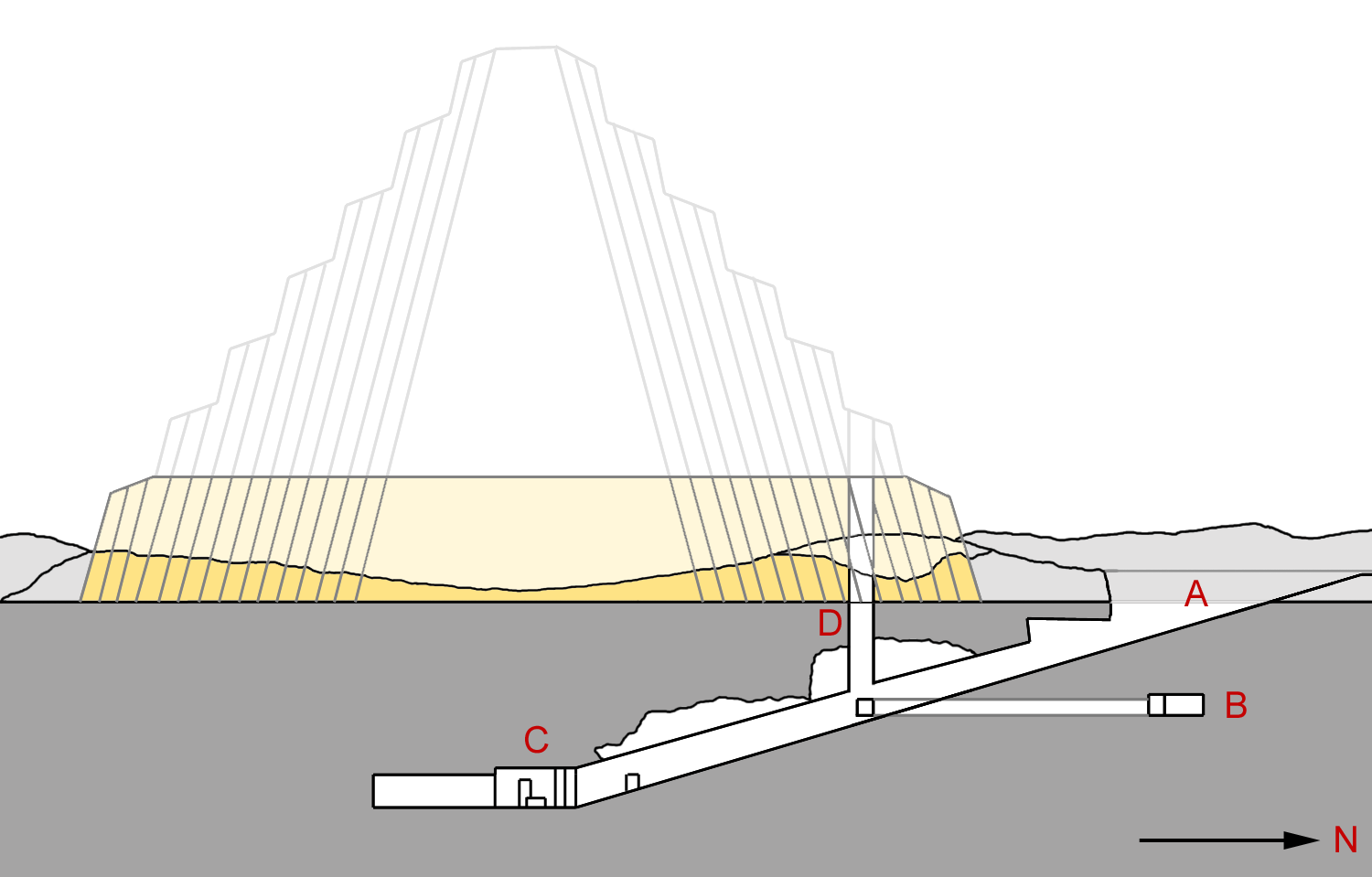 Structure of the pyramid of Sekhemkhet